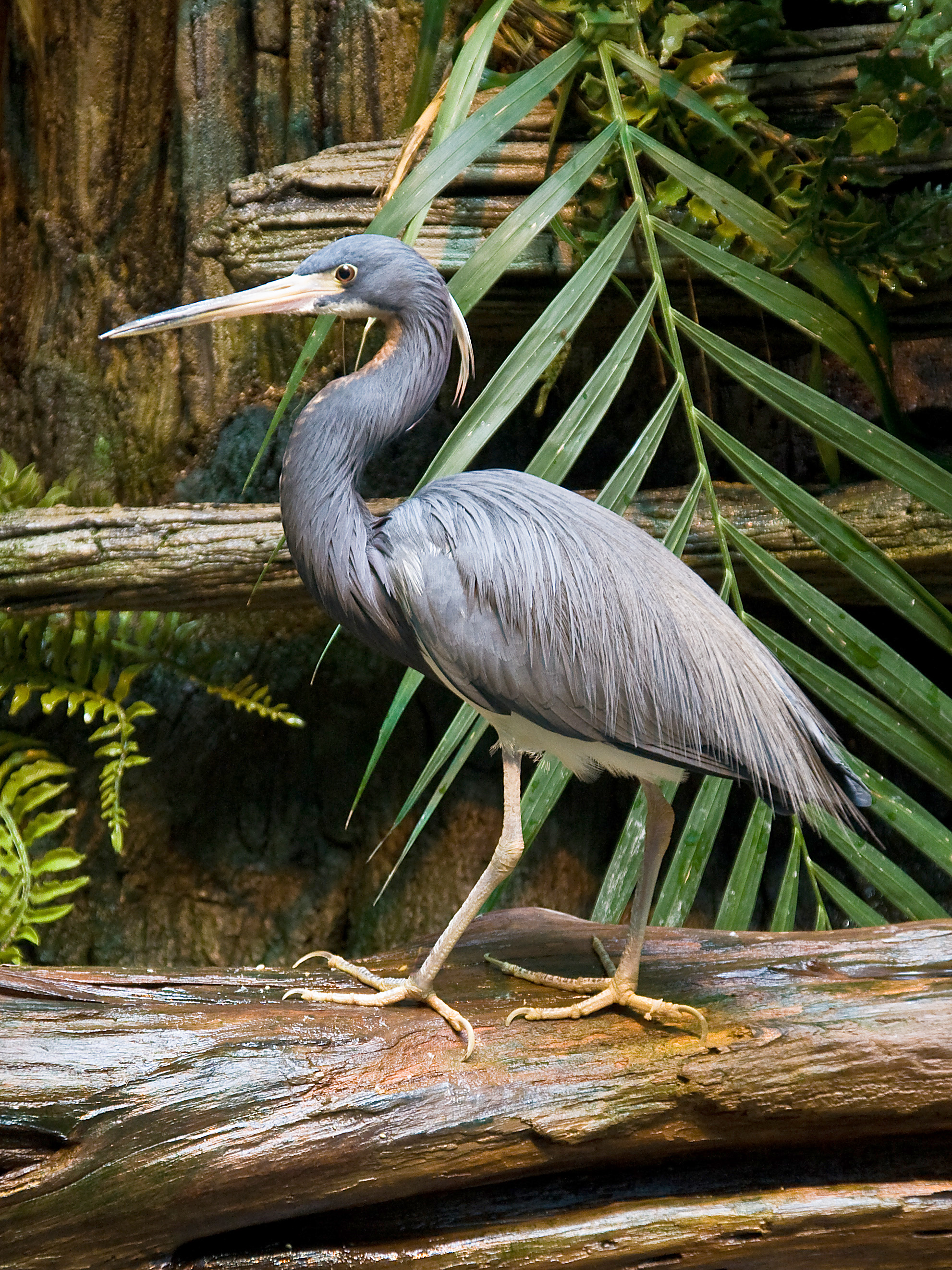 Tri-colored heron at the Cincinnati Zoo.